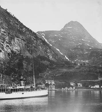 Norwegian passengership DS Sigurd Jarl (built in 1894) in Geiranger. This ship was used in the coastal express service (Hurtigruten) from 1907.